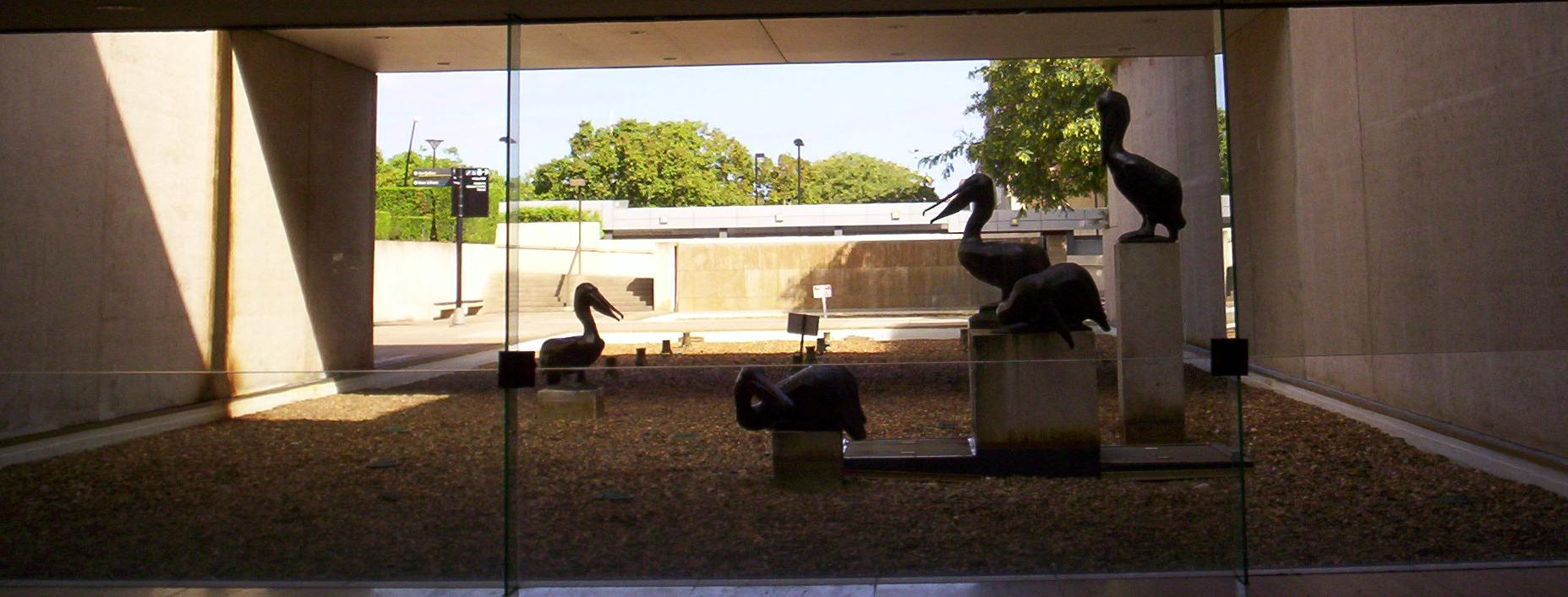 Australian Pelican sculptures at the Queensland Art Gallery, in Brisbane, Queensland, Australia